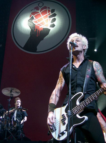 Mike Dirnt and Tre Cool of Green Day performing in Atlantic Wharf, Cardiff, Wales, Great Britain on July 27, 2006.